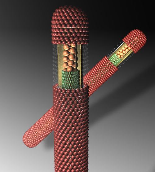 3D model of a Filovirus